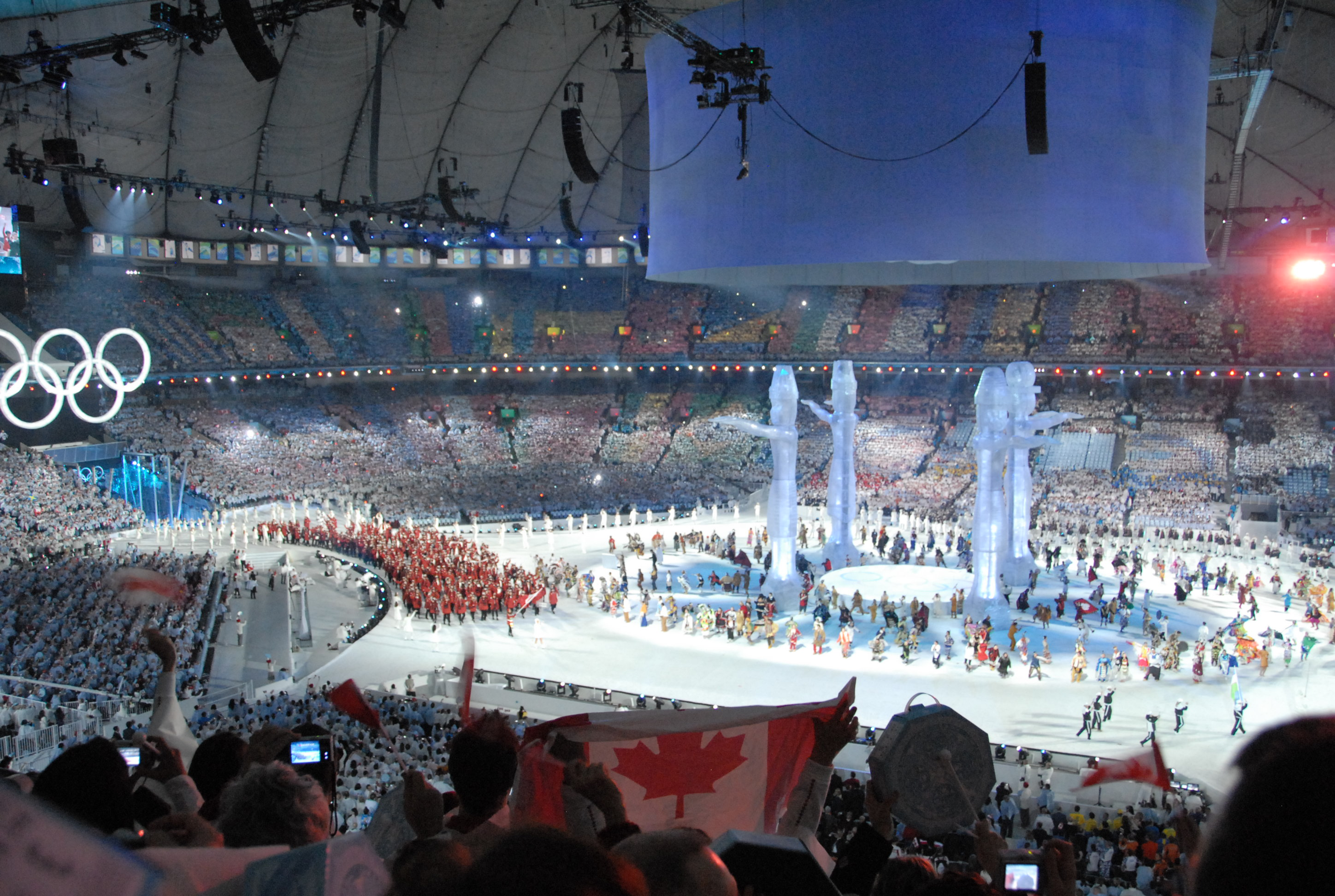 View of the opening ceremony at the Vancouver 2010 Winter Olympics